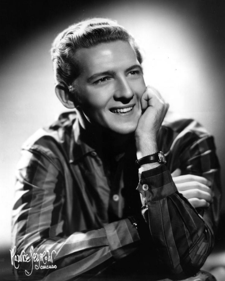 Publicity photo of Jerry Lee Lewis.